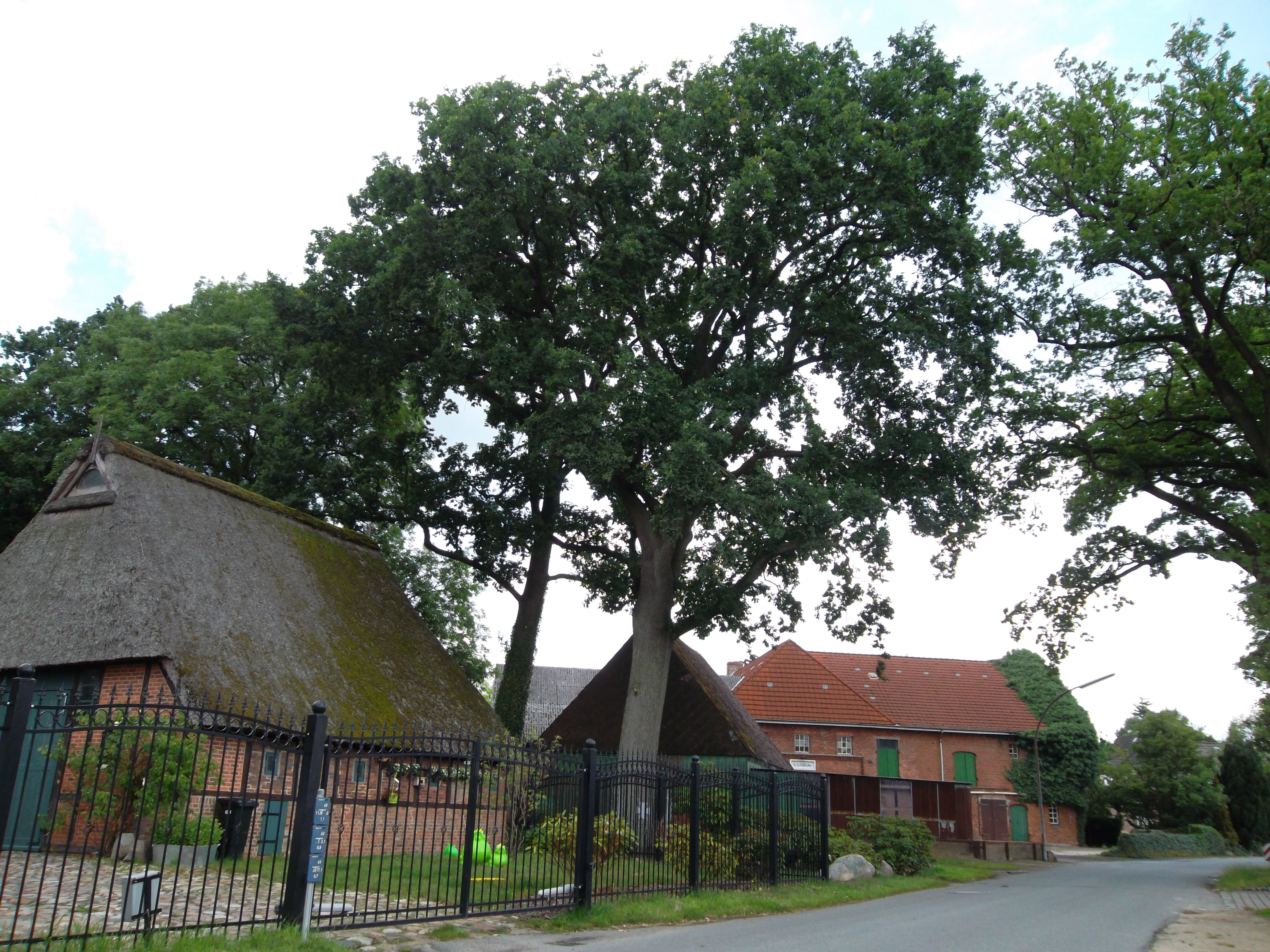 "Peace Oak" at Bönningstedt, view from south